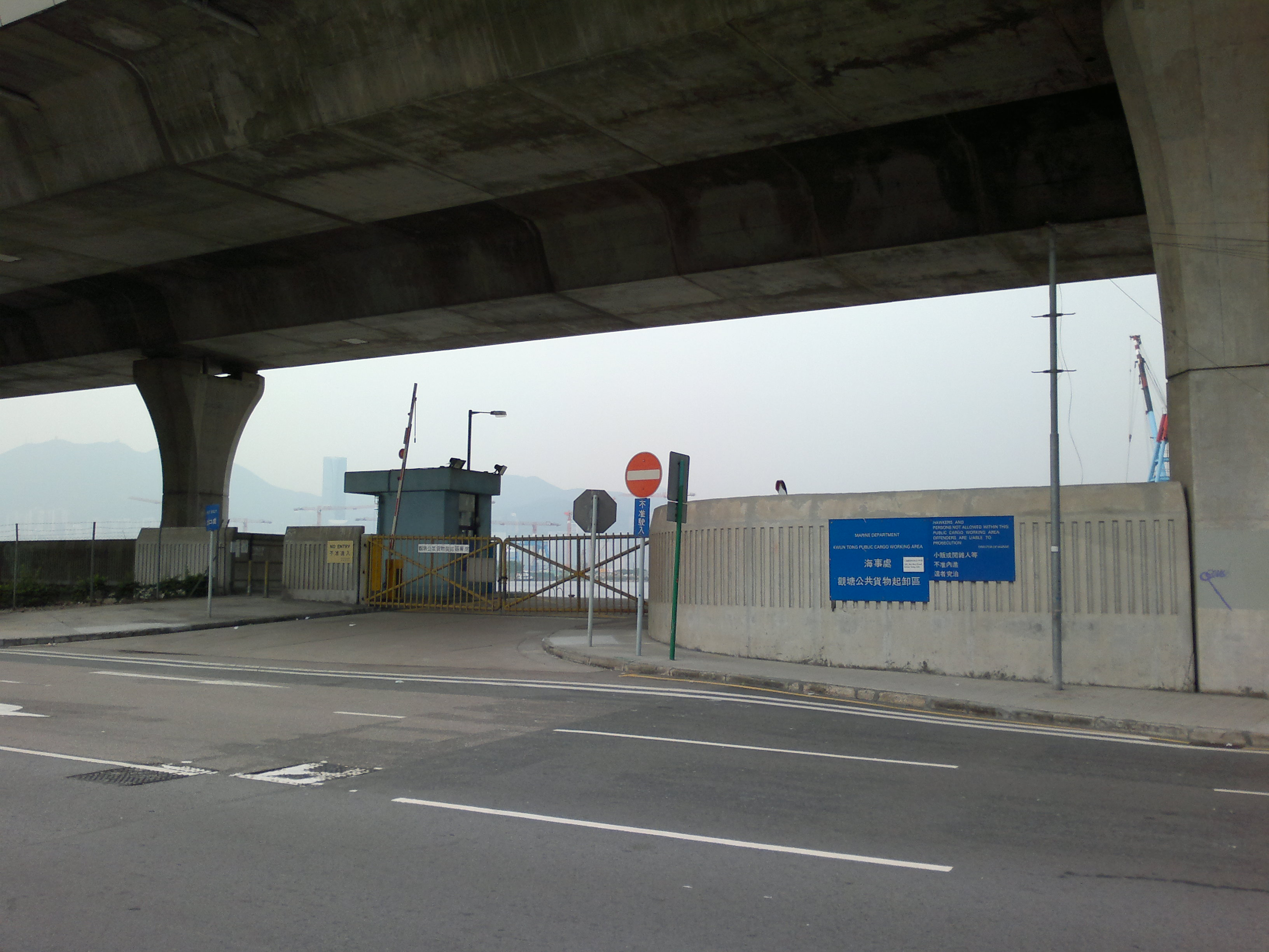 Kwun Tong Public Cargo Working Area